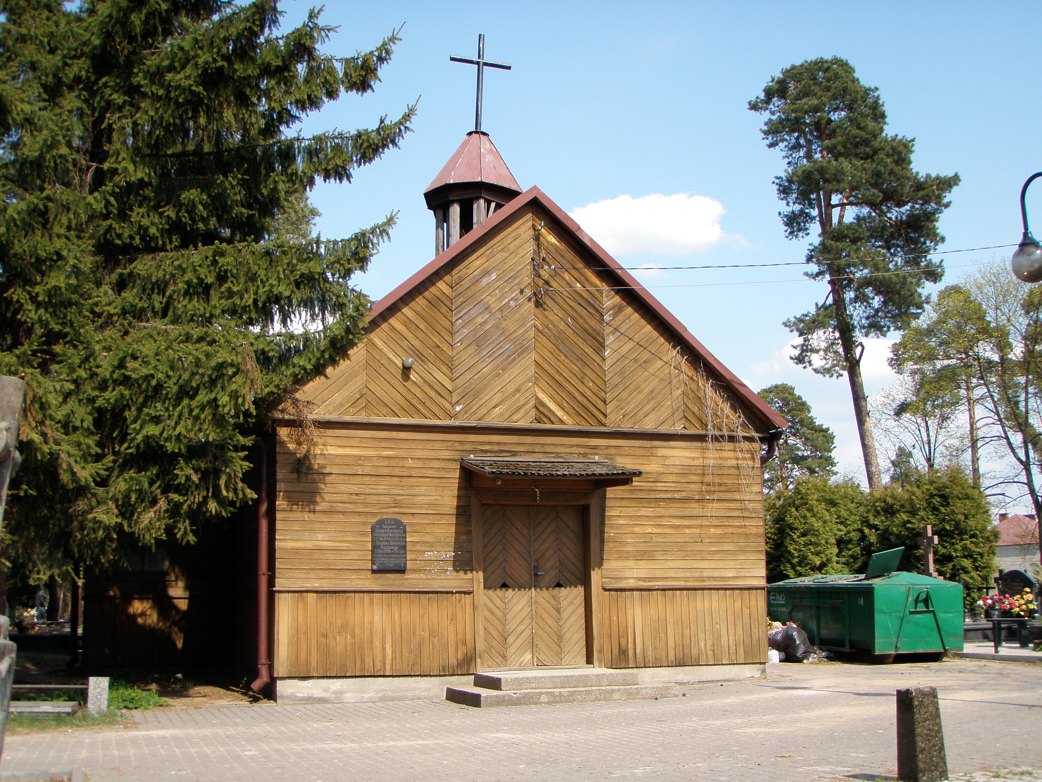 Chapel of Truszkowski Family in Augustów (Poland).